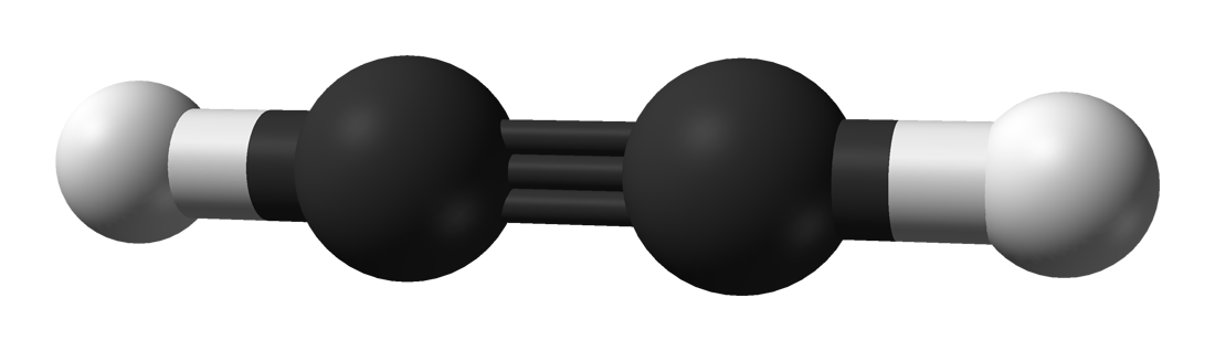 Ball-and-stick model of the acetylene (ethyne) molecule, C2H2. Structural information (determined by infrared spectroscopy) from CRC Handbook, 88th edition. Image generated in Accelrys DS Visualizer.